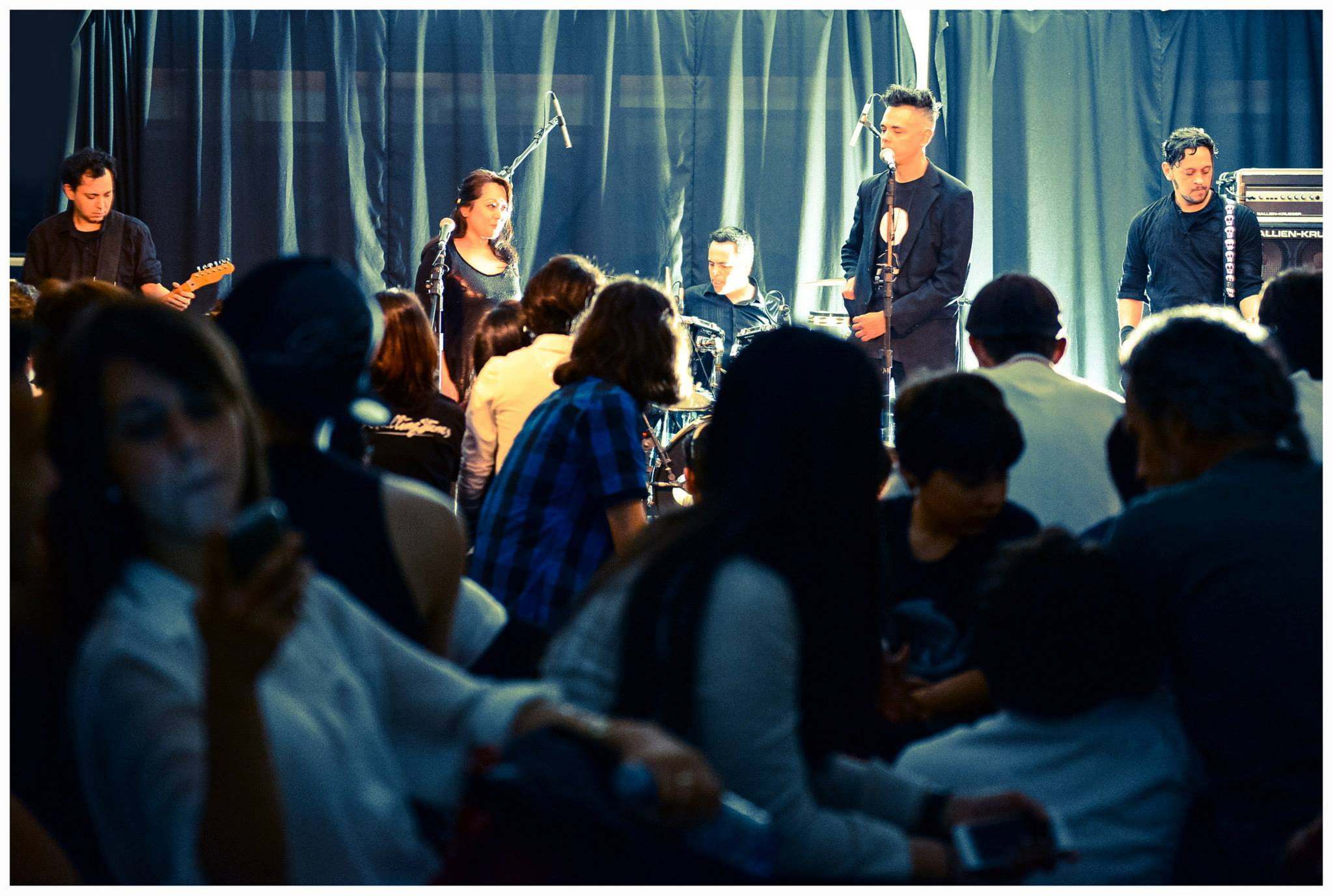 Elegia - Brazilian post-punk band